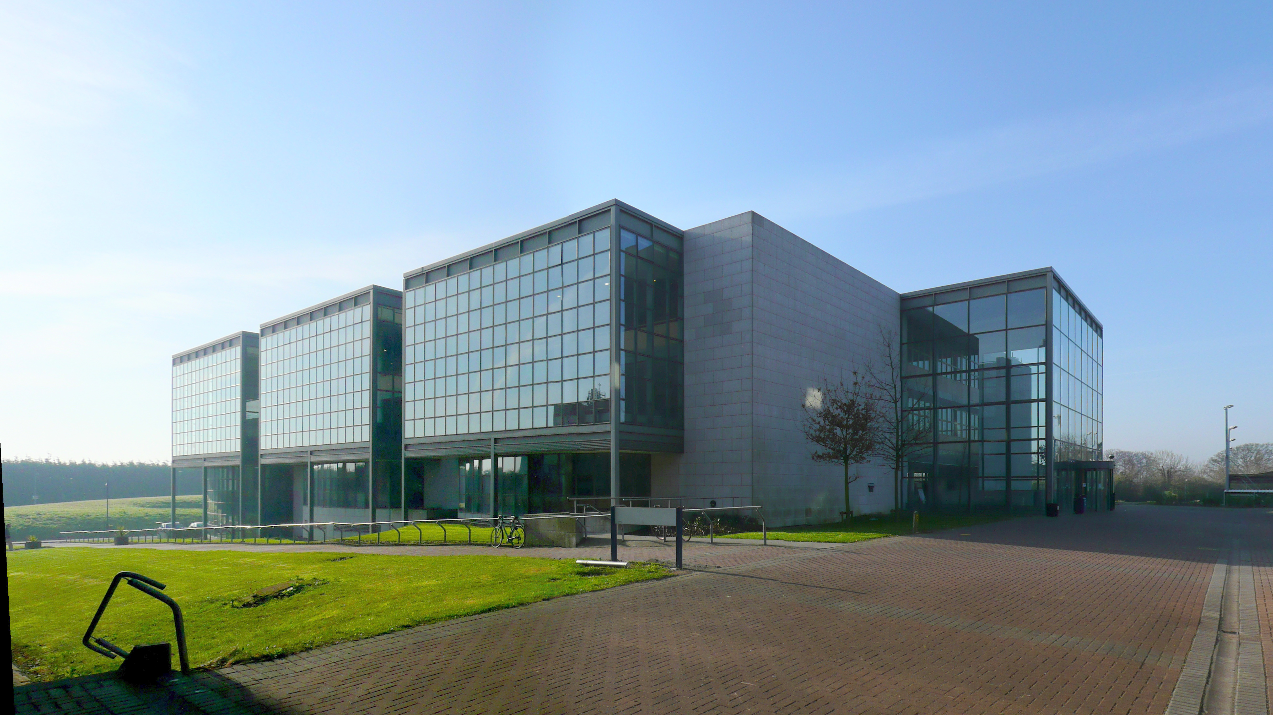 Photo of DCU Glasnevin Library taken in 2009